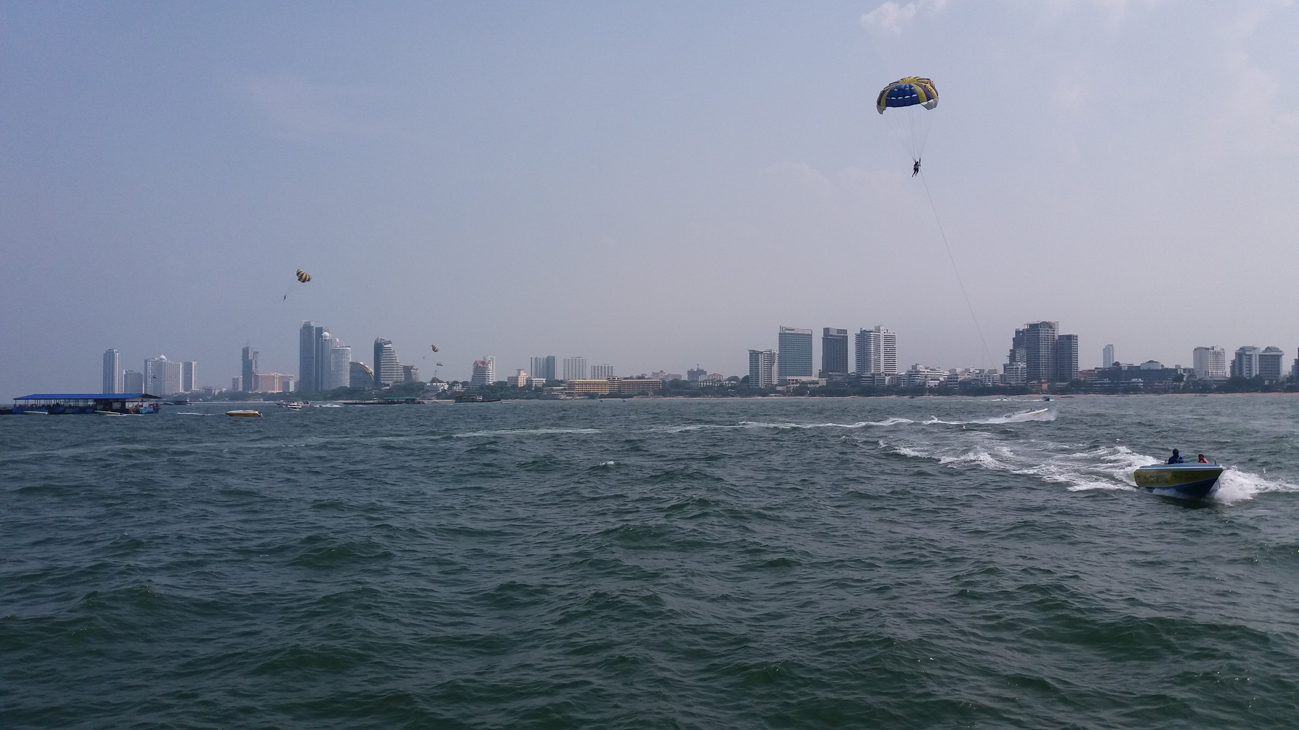 The skyline of Pattaya as viewed from the sea.